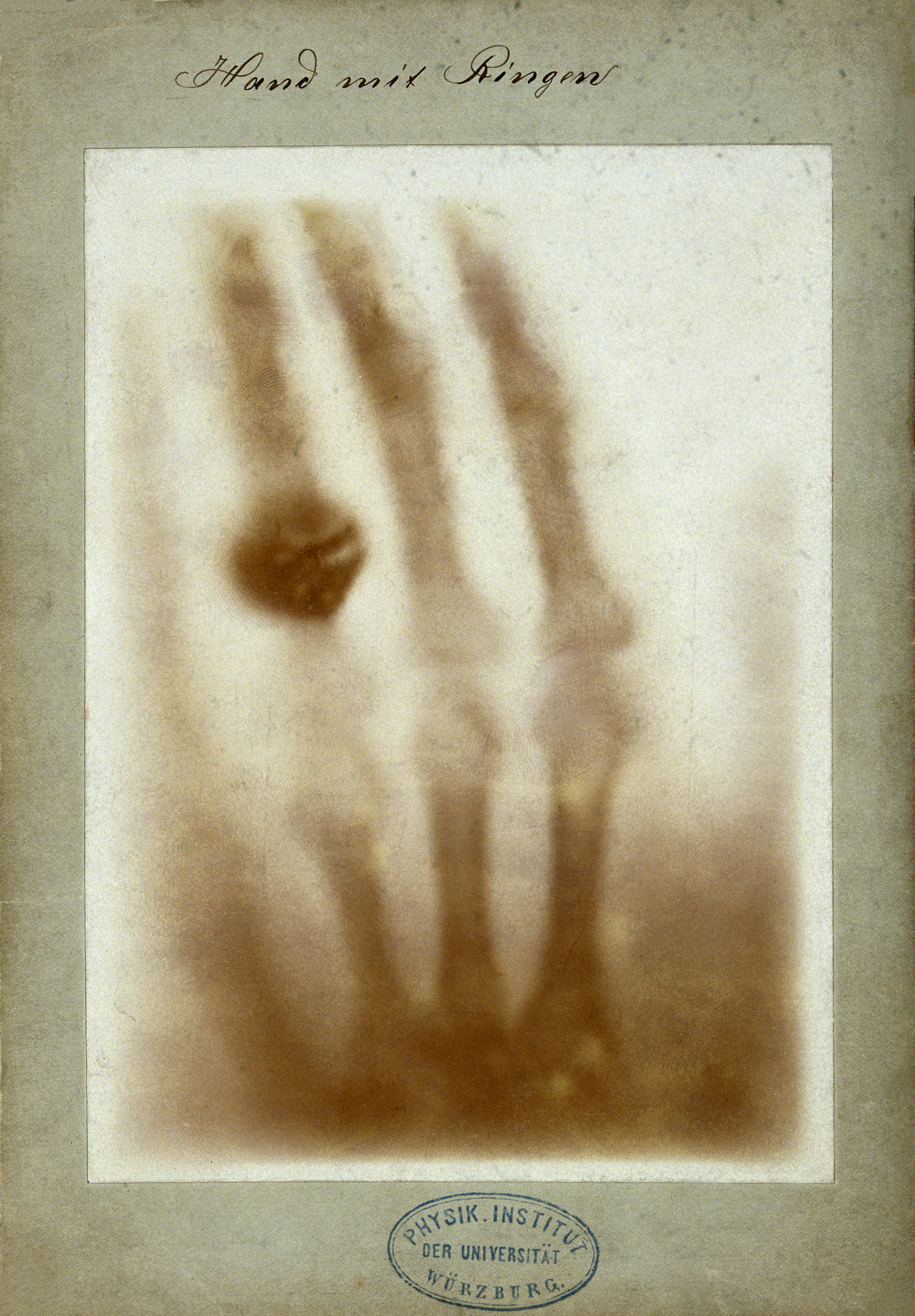 Hand mit Ringen (Hand with Rings): a print of one of the first X-rays by Wilhelm Röntgen (1845–1923) of the left hand of his wife Anna Bertha Ludwig. It was presented to Professor Ludwig Zehnder of the Physik Institut, University of Freiburg, on 1 January 1896.